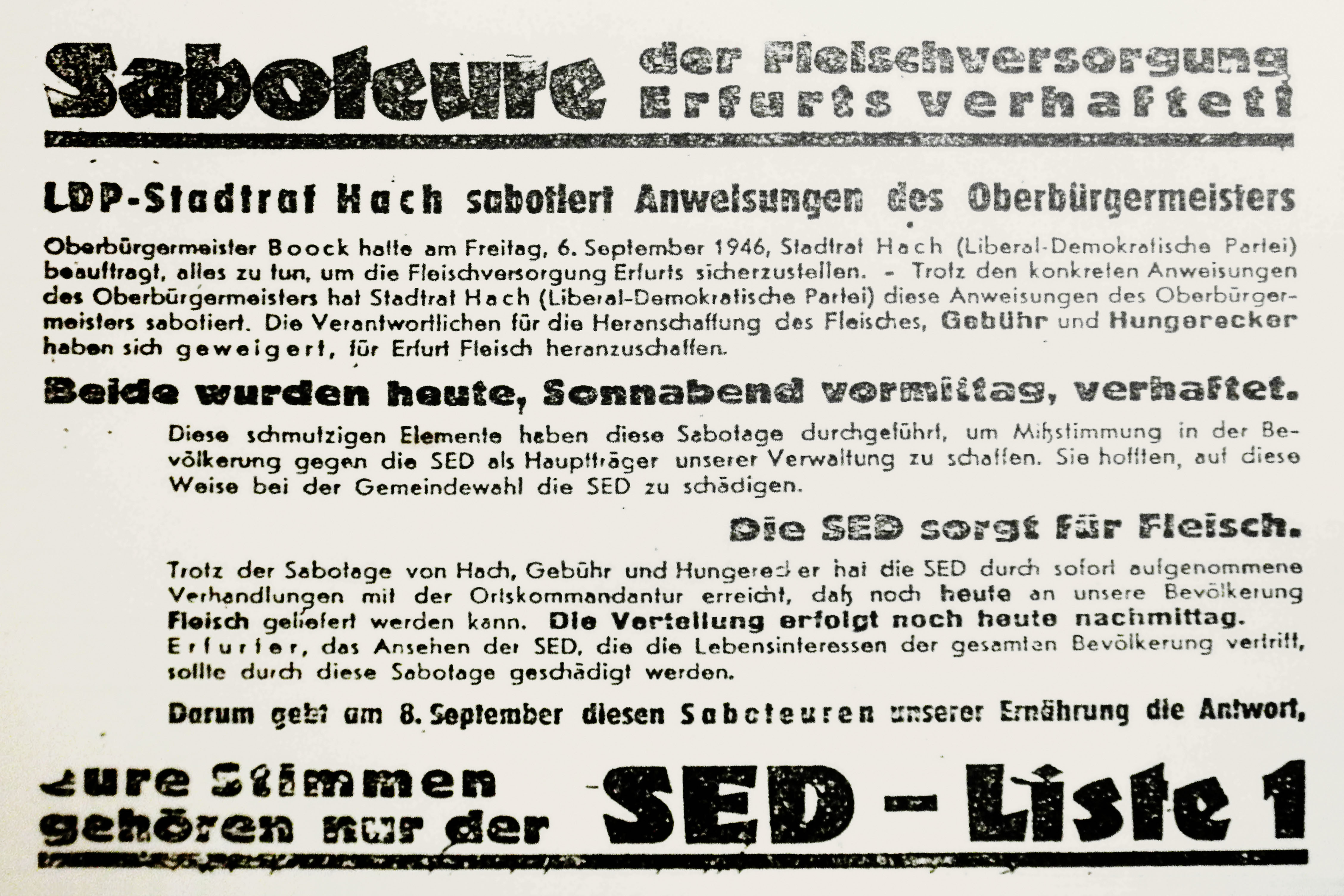 Election Paper in Erfurt 1946